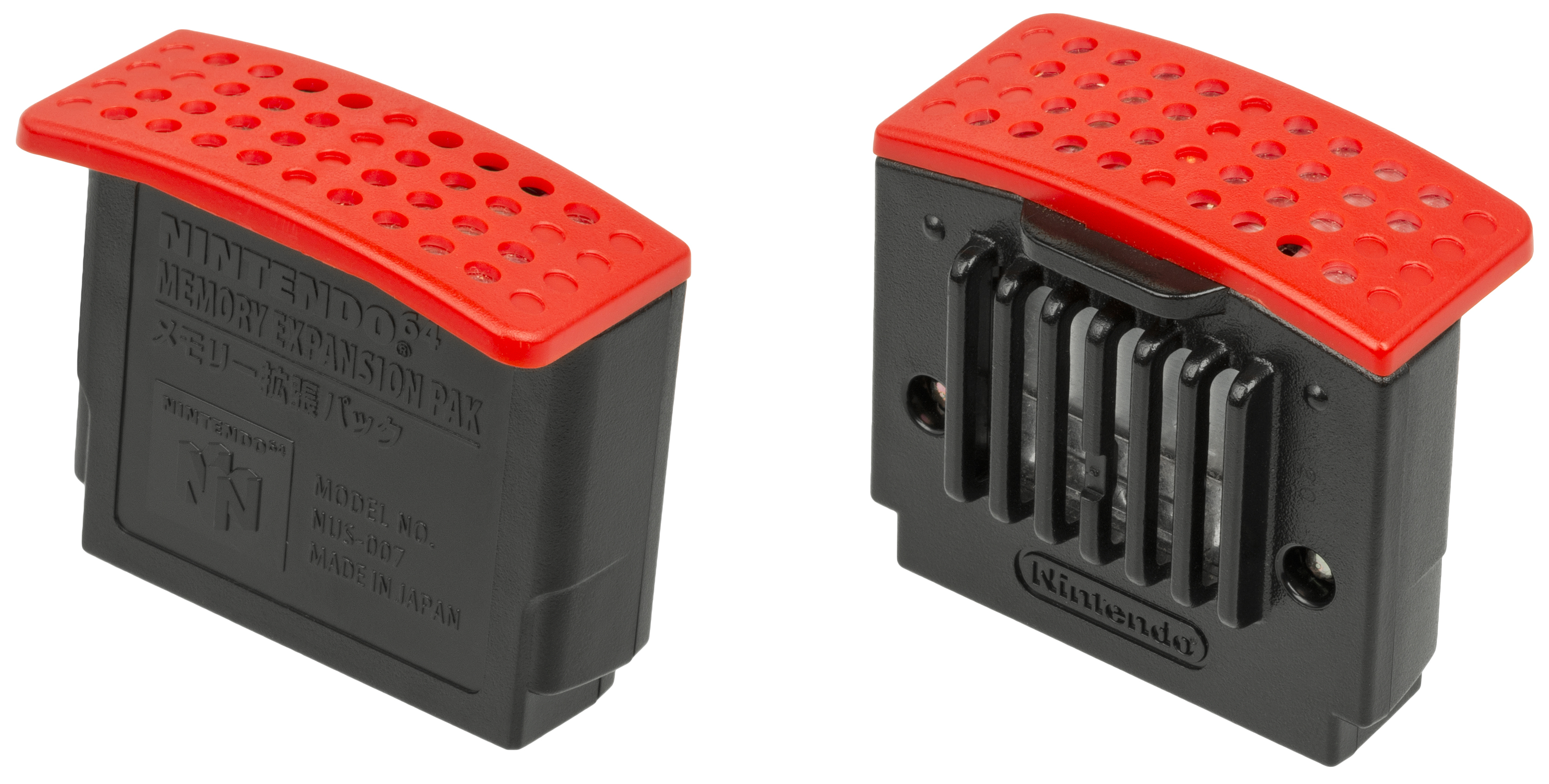 The N64 Memory Expansion Pak, a 4MB RAM expansion for the Nintendo 64 video game console. It added to capabilities of the system and was used for a few games and was required for the 64DD add-on.